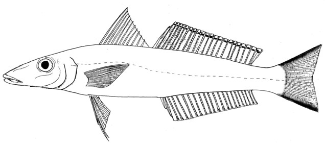 A hand drawn diagram of Sillago asiatica, the Asian whiting. Done using pen and pencil based on McKay (1986)